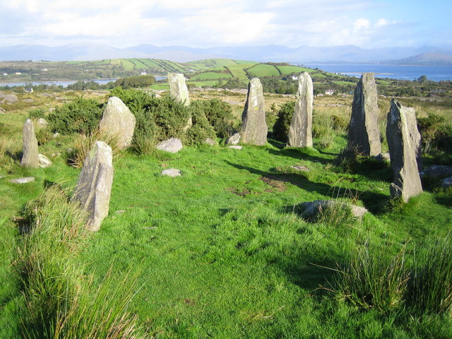 Ardgroom Stone Circle This is the main circle. It is sometimes known as the Canfea Stone Circle after the local townland.